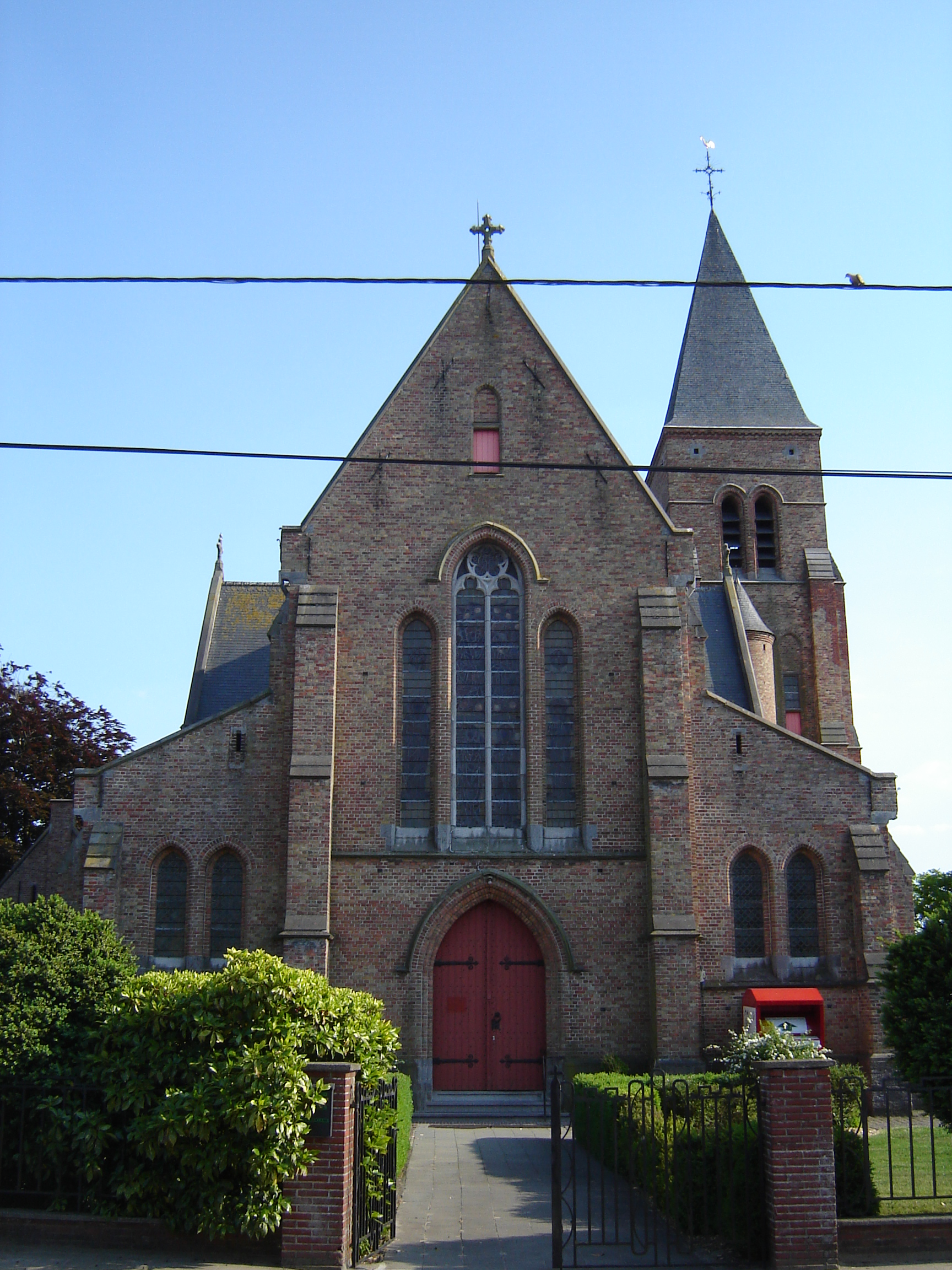 Church of Our Lady Immaculate in 's Gravenjansdijk. 's Gravenjansdijk, Bassevelede, Assenede, East Flanders, Belgium